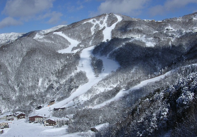 Mount Nishidate and Nishidateyama Suki Resort seen from the SSW. Taken from Giant Ski Resort.